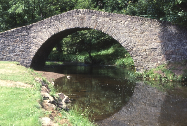 Keith Old Bridge. Now bypassed, this bridge carried the main road from Aberdeen to Inverness across the River Isla.